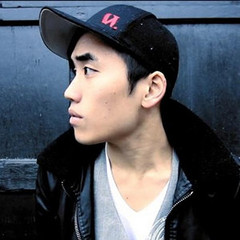 Headshot of YouTube Musician Andrew Huang